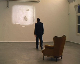 Encounter #1 2004